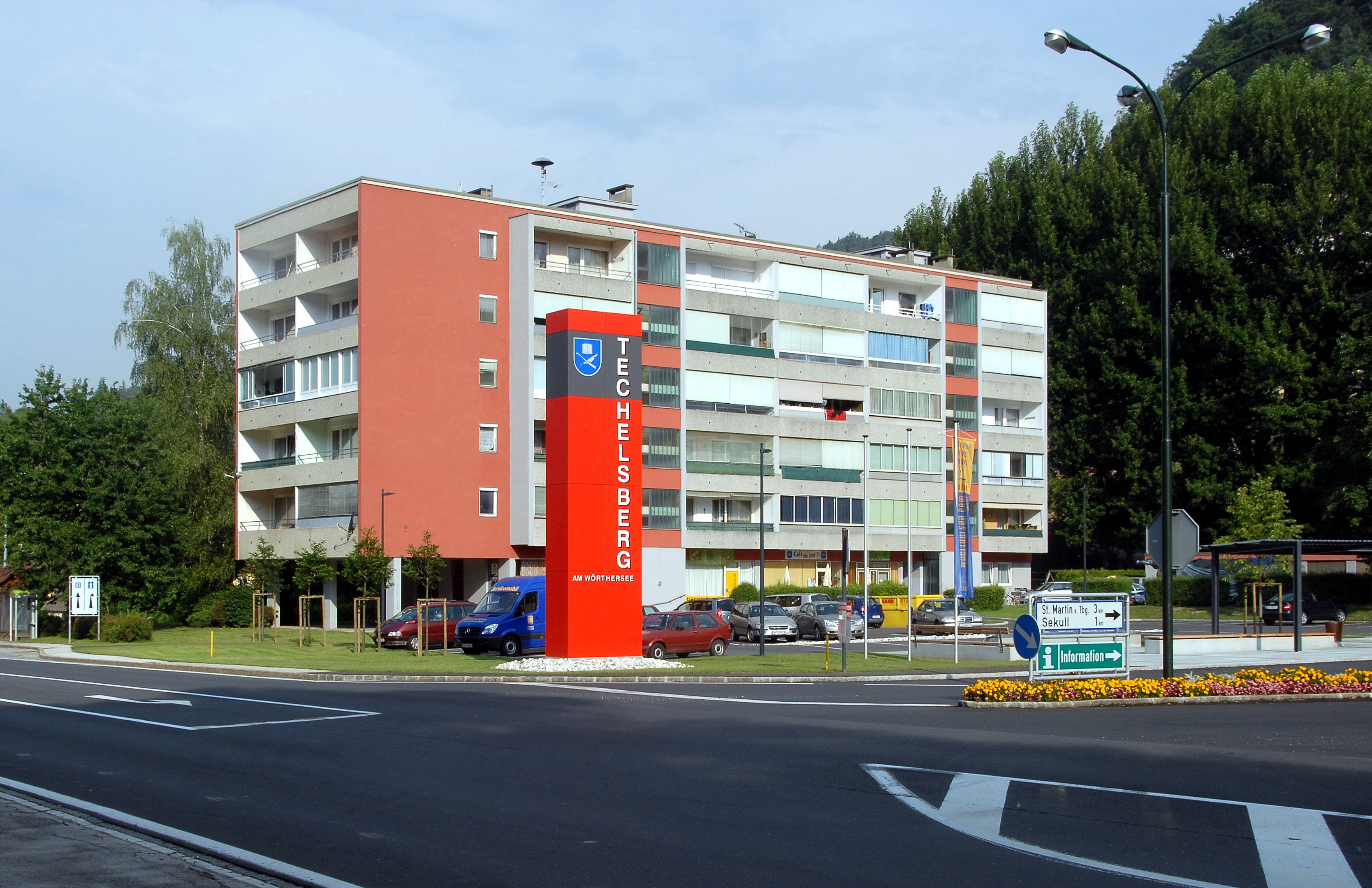 Main square and Kaerntner Straße B83 in Toeschling, municipality Techelsberg am Wörther See, district Klagenfurt Land, Carinthia, Austria, EU